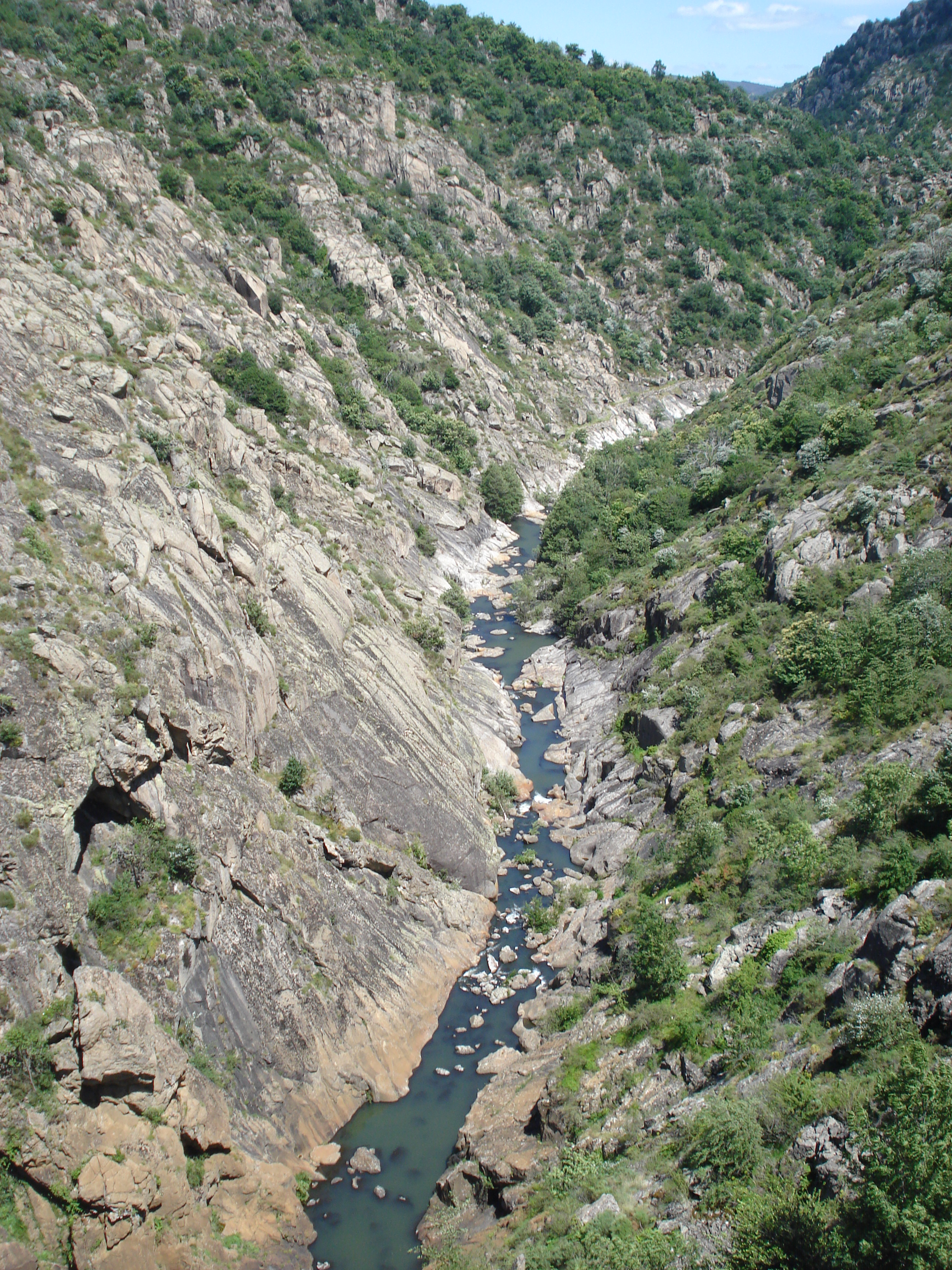 L'Altier à sa sortie du barrage du lac de Villefort.